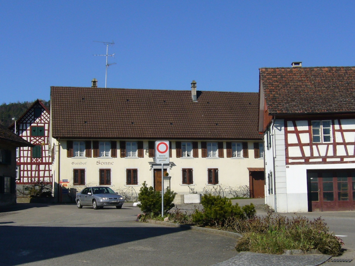 Restaurant Sonne in the village of Hüttwilen, Canton Thurgau, Switzerland. Picture taken by Peter Berger. March 26, 2007